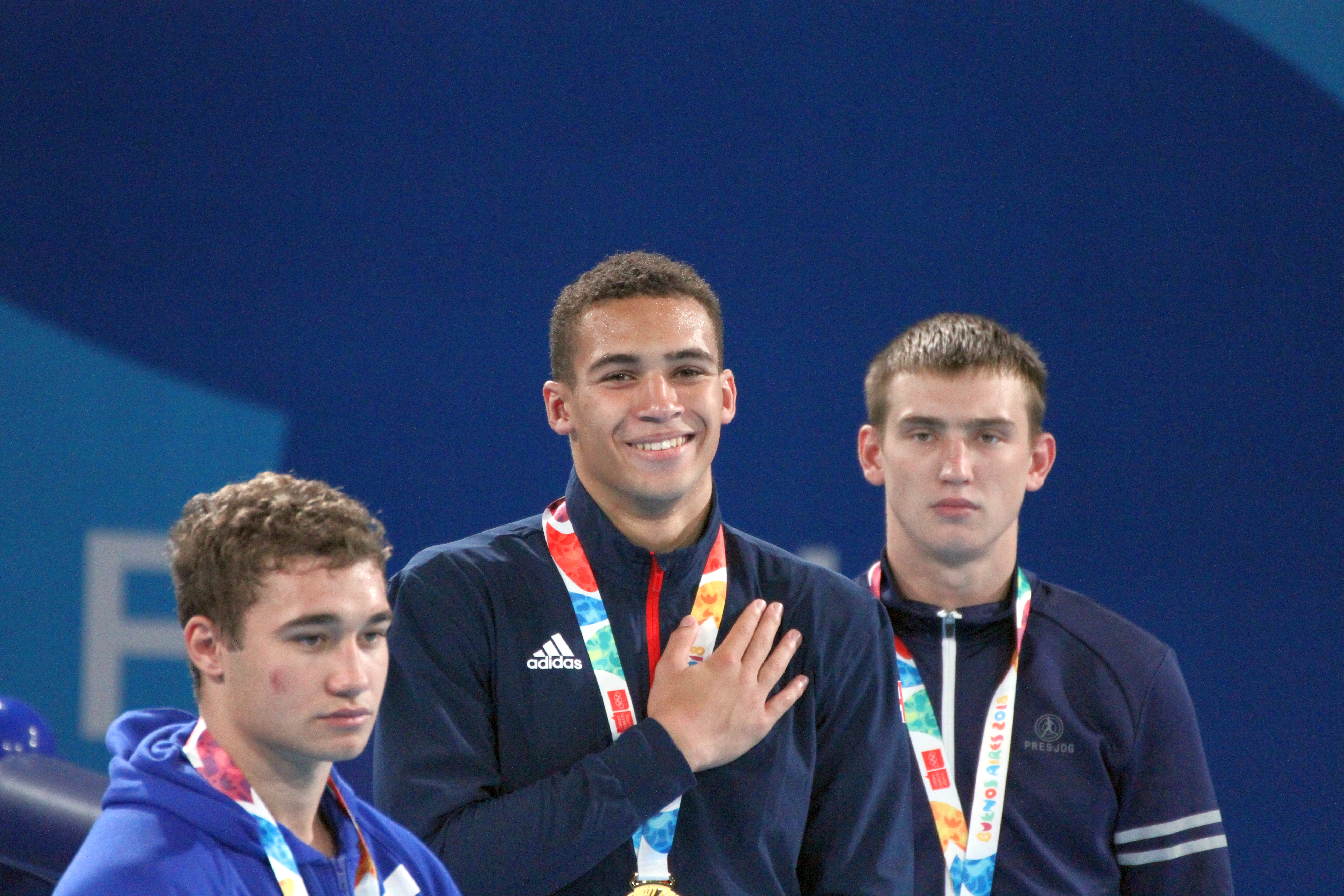 Boxing at the 2018 Summer Youth Olympics on 18 October 2018 – Boys' light heavyweight Victory Ceremony - Gold: Karol Itauma (Great Britain), Silver: Ruslan Kolesnikov (Russia), Bronze: Timur Merjanov (Uzbekistan); Medal handover by Daina Gudzinevičiūtė (IOC, Lithunia), Gift presented by Pasquale Lucio Fiacco (Canada, AIBA).